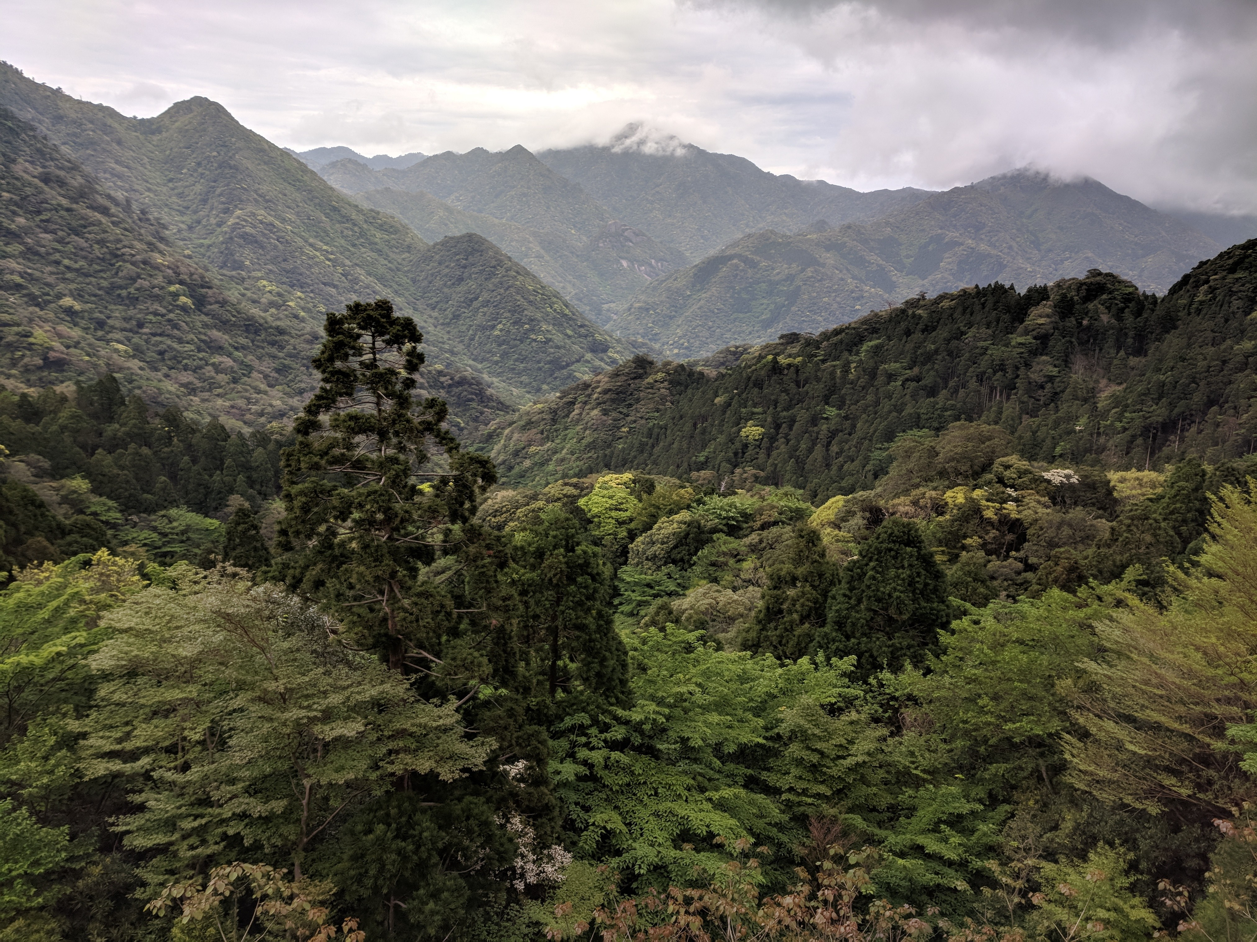 A view of forested hills from the side of Route 592 on Yakushima.